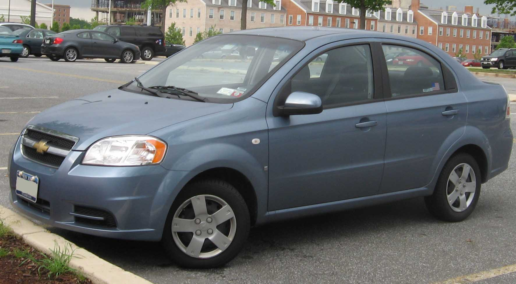 2007-2008 Chevrolet Aveo photographed in College Park, Maryland, USA.